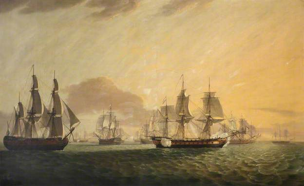 General Goddard, HMS Sceptre, and Swallow capturing Dutch East Indiamen, Oil on canvas, 114.3 x 184.1 cm